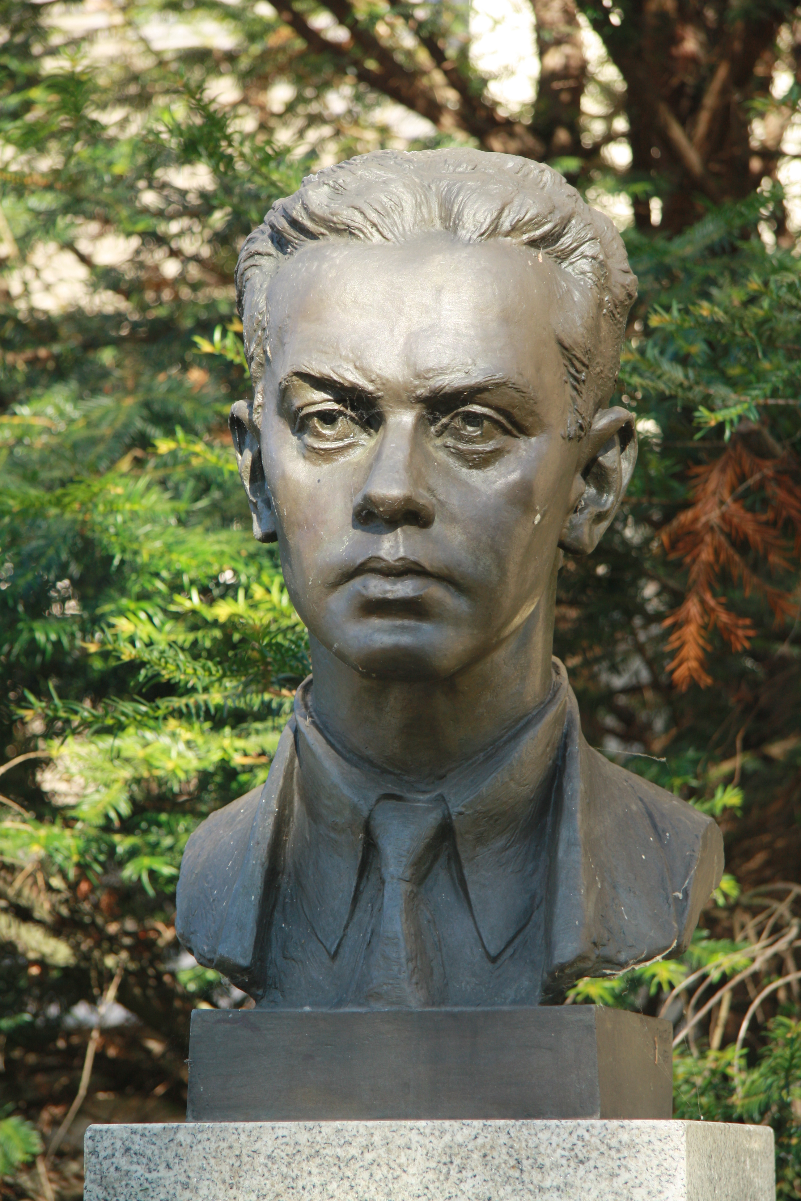 Detail of Bust of Kurt Konrád in Třebíč, Třebíč District.